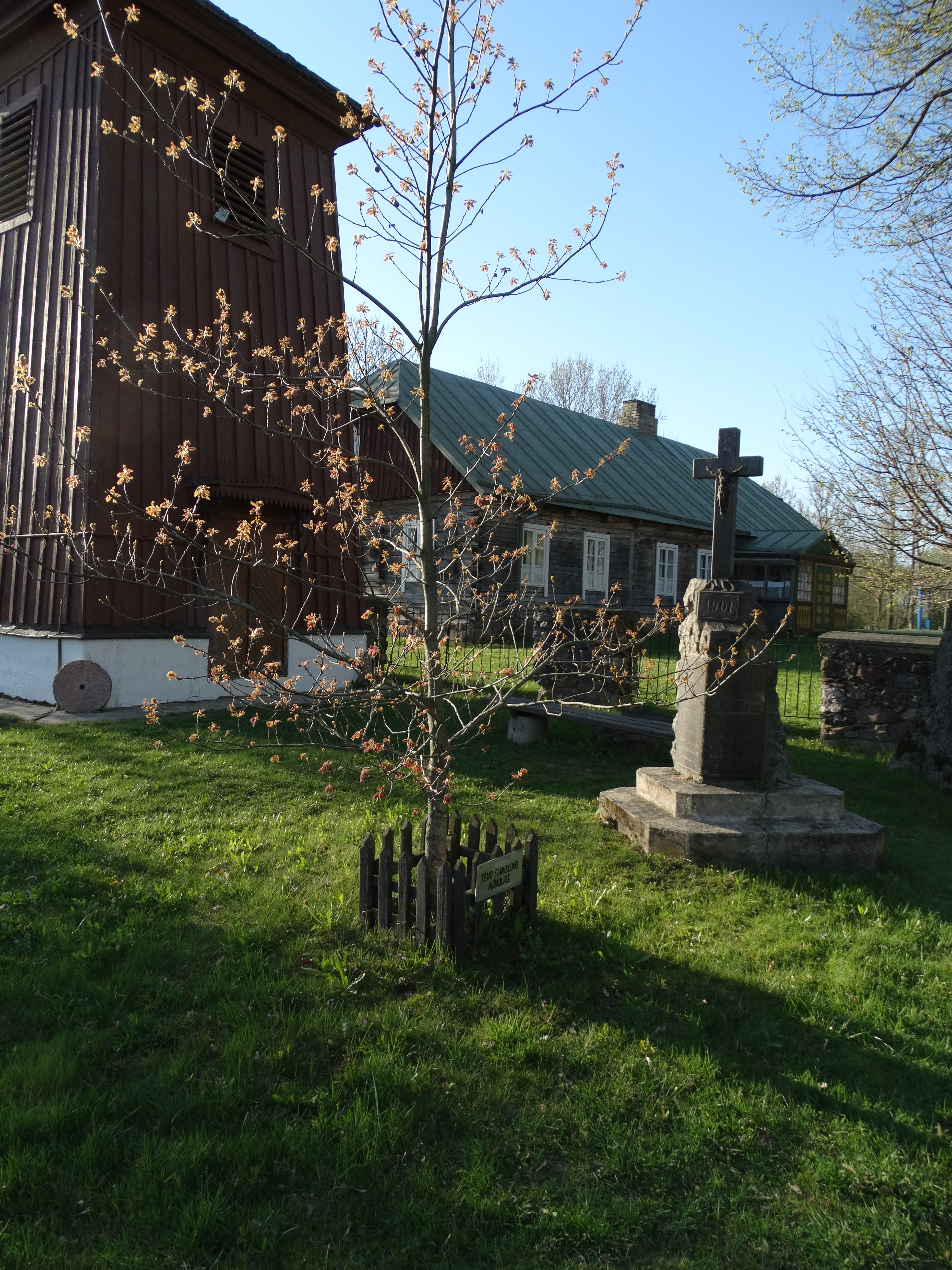 Father Stanislovas' small oak in Paberžė, Kėdainiai District, Lithuania